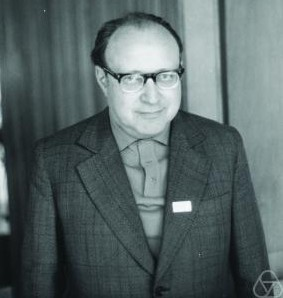 Russian mathematician Eugene Borisovich Dynkin in Leningrad, 1976.